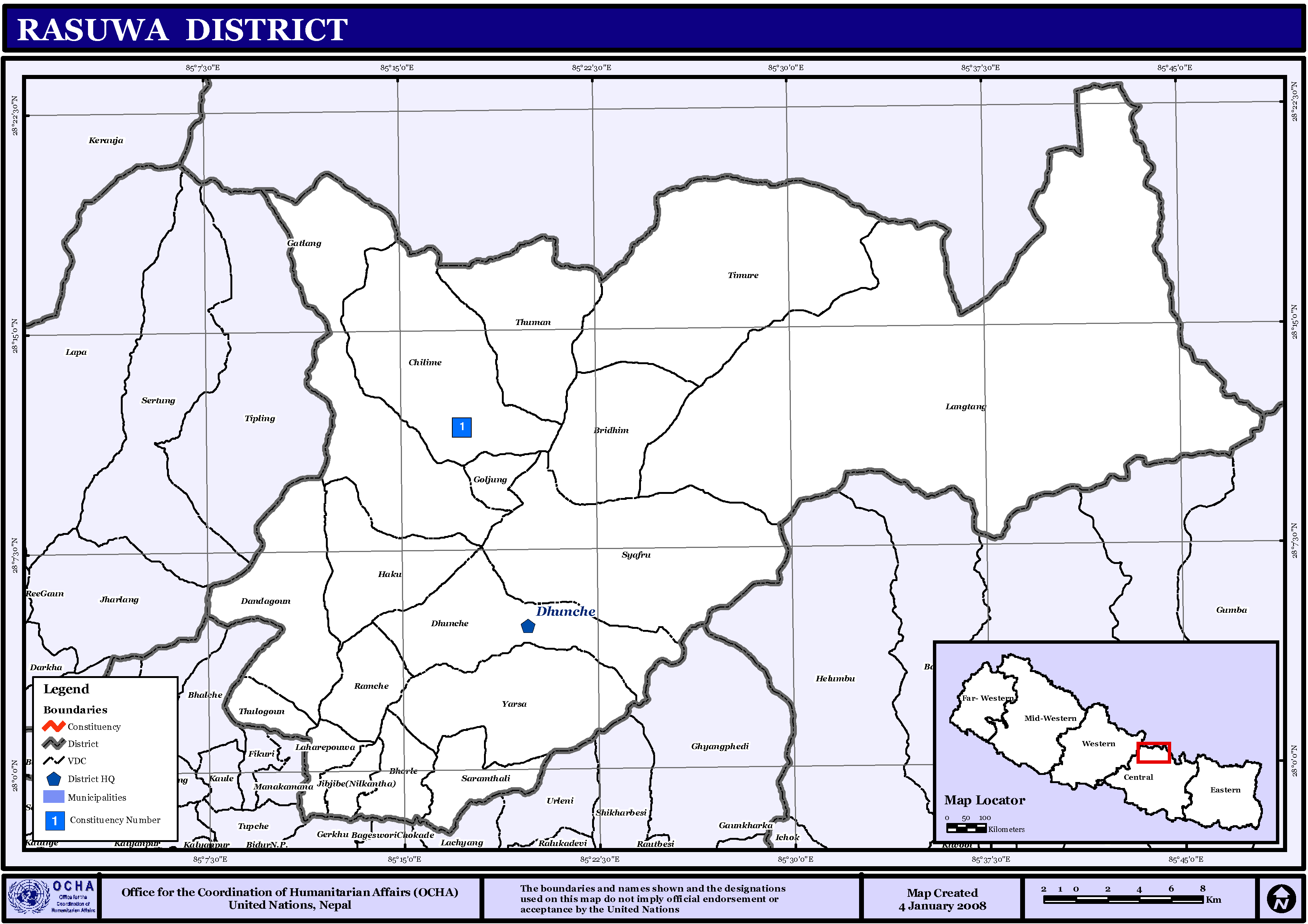 Map displaying Village Development Committees in Rasuwa District, Nepal